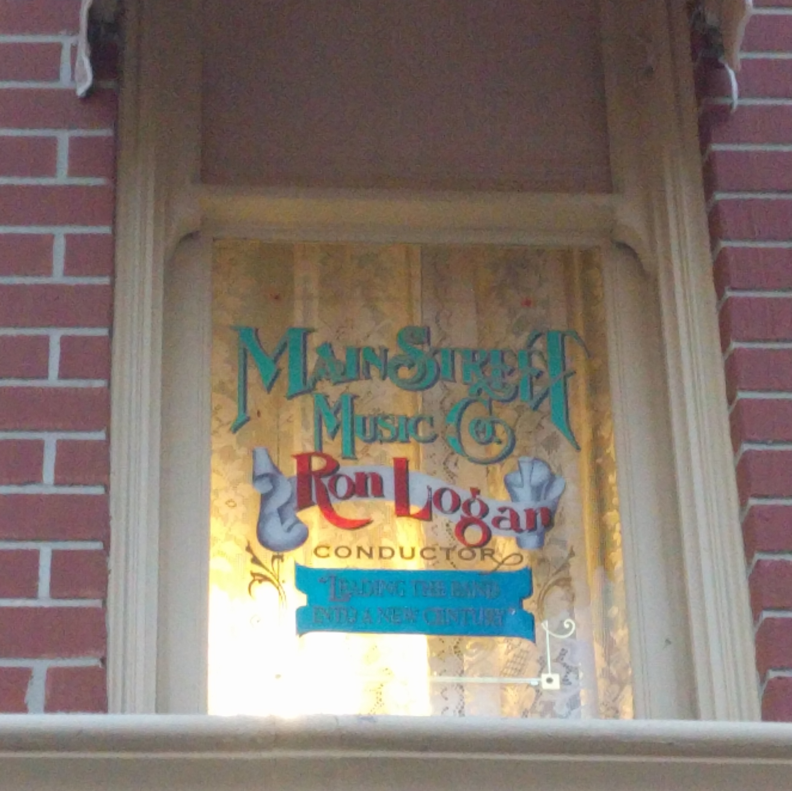 Ron Logan Conductor Leading the Band into a New Century